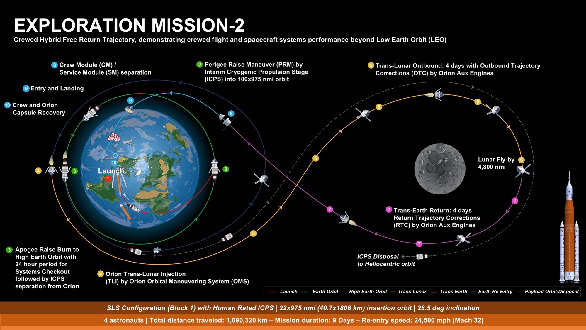 EM-2 will send 4 astronauts a total of 1,090,320km over 9 days and have a re-entry speed of 24,500 mph (mach 32)